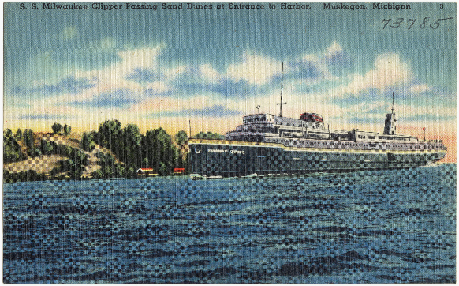 File name: 06_10_014793 Title: S. S. Milwaukee Clipper passing sand dunes at entrance to harbor, Muskegon, Michigan Date issued: 1930 - 1945 (approximate) Physical description: 1 print (postcard) : linen texture, color ; 3 1/2 x 5 1/2 in. Genre: Postcards Subject: Ships; Lakes & ponds Notes: Title from item. Collection: The Tichnor Brothers Collection Location: Boston Public Library, Print Department Rights: No known restrictions